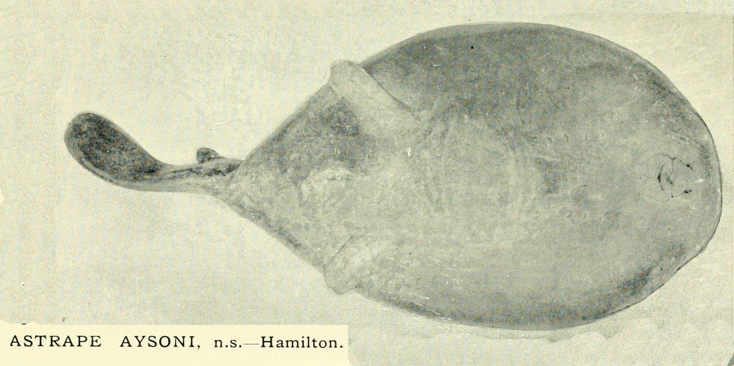 Blind electric ray Typhlonarke aysoni syn. Astrape aysoni